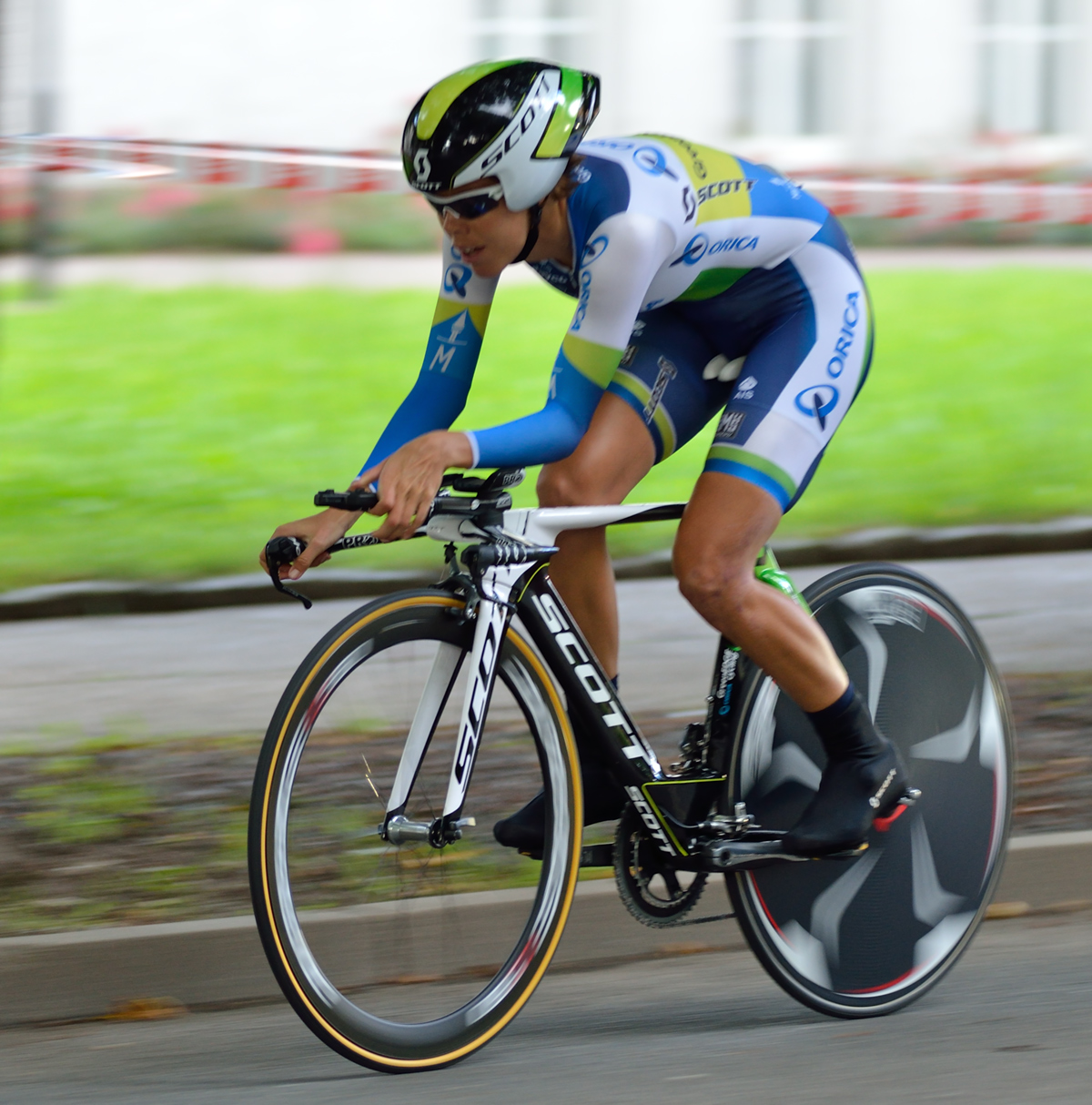 Jessie McLean from the Orica-AIS team during the Women's Tour of Thuringia 2012 in Zwickau, Germany.